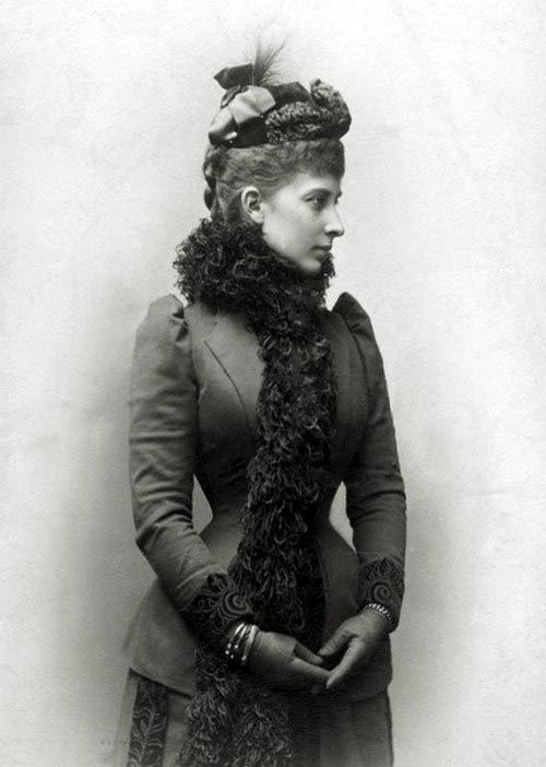 Charlotte, Duchess of Saxe Meiningen, neé Princess of Prussia. Early 1890s